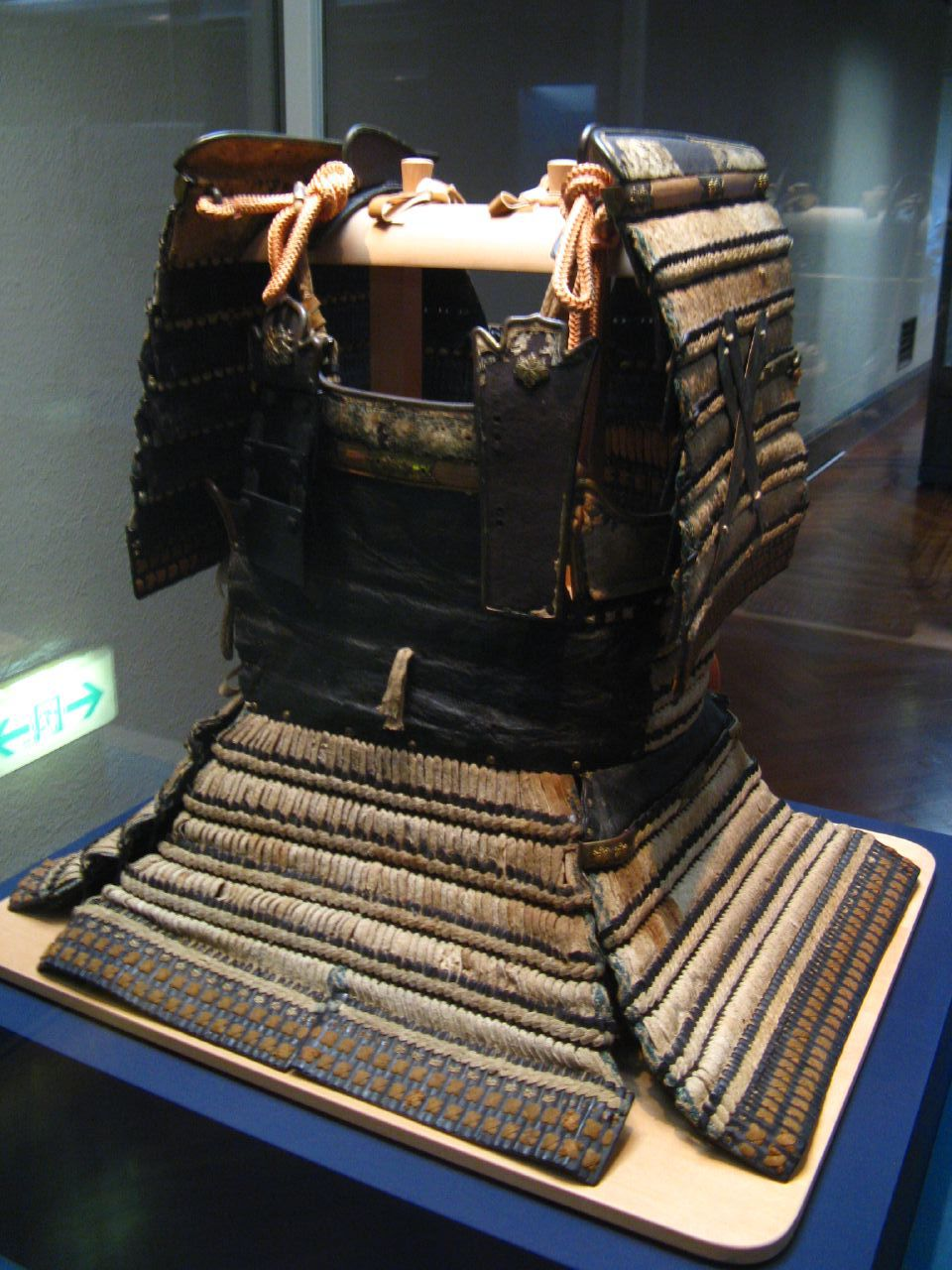 Antique Japanese (samurai) O-Yoroi which is a collection of Hasedera at Nara Prefecture. Displayed in Tokyo National Museum.